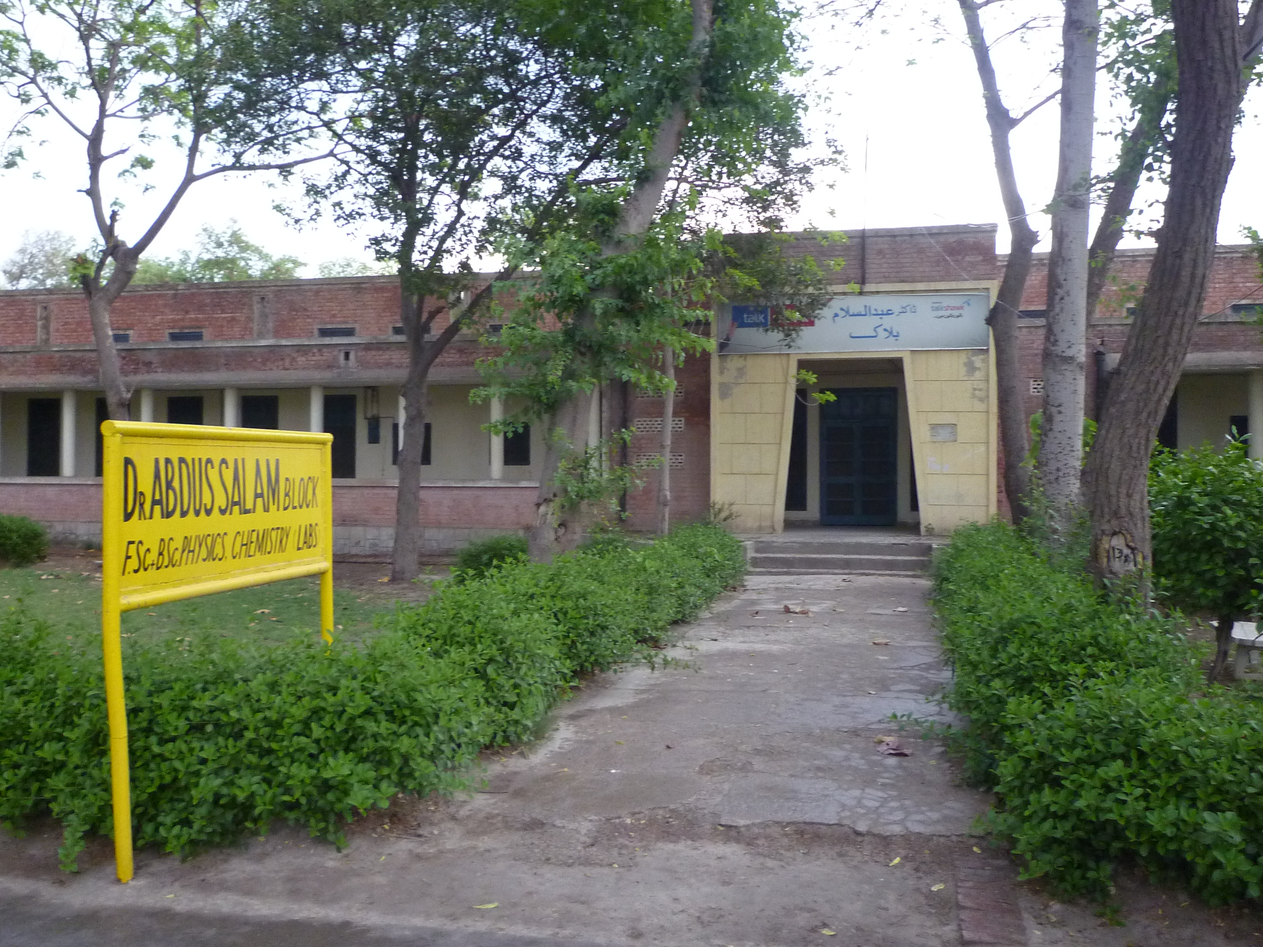 govt college jhang